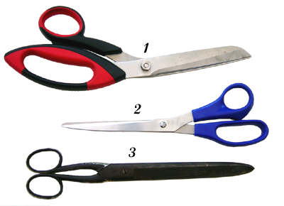 Scissors 1. Professional scissors 2. Textile scissors 3. Paper scissors Photographer Isabelle Grosjean ZA Date 2001-10-05 License GFDL-self Camera Sony PSC-P92